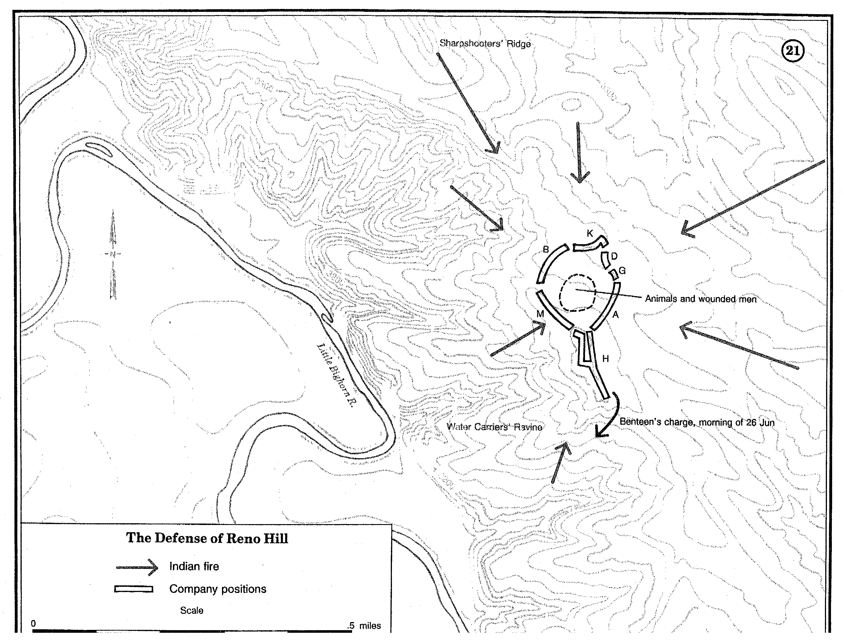 Atlas of the Sioux Wars prepared for The Combat Studies Institute, U.S. Army Command and General Staff College Compiled by Dr. William Glenn Robertson Dr. Jerold E. Brown Major William M. Campsey Major Scott R. McMeen